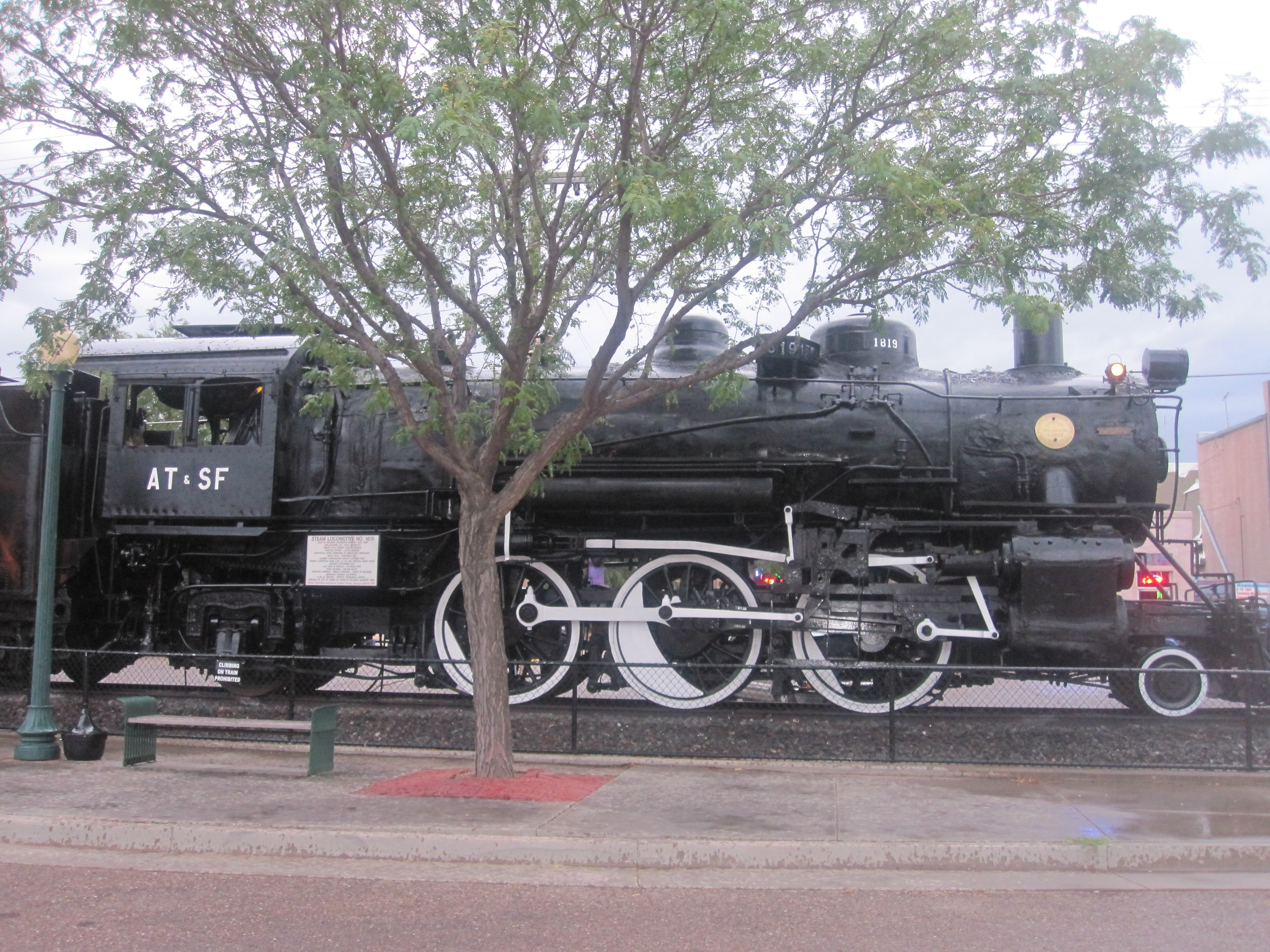 ATSF locomotive. I took photo with Canon camera in Lamar, CO.